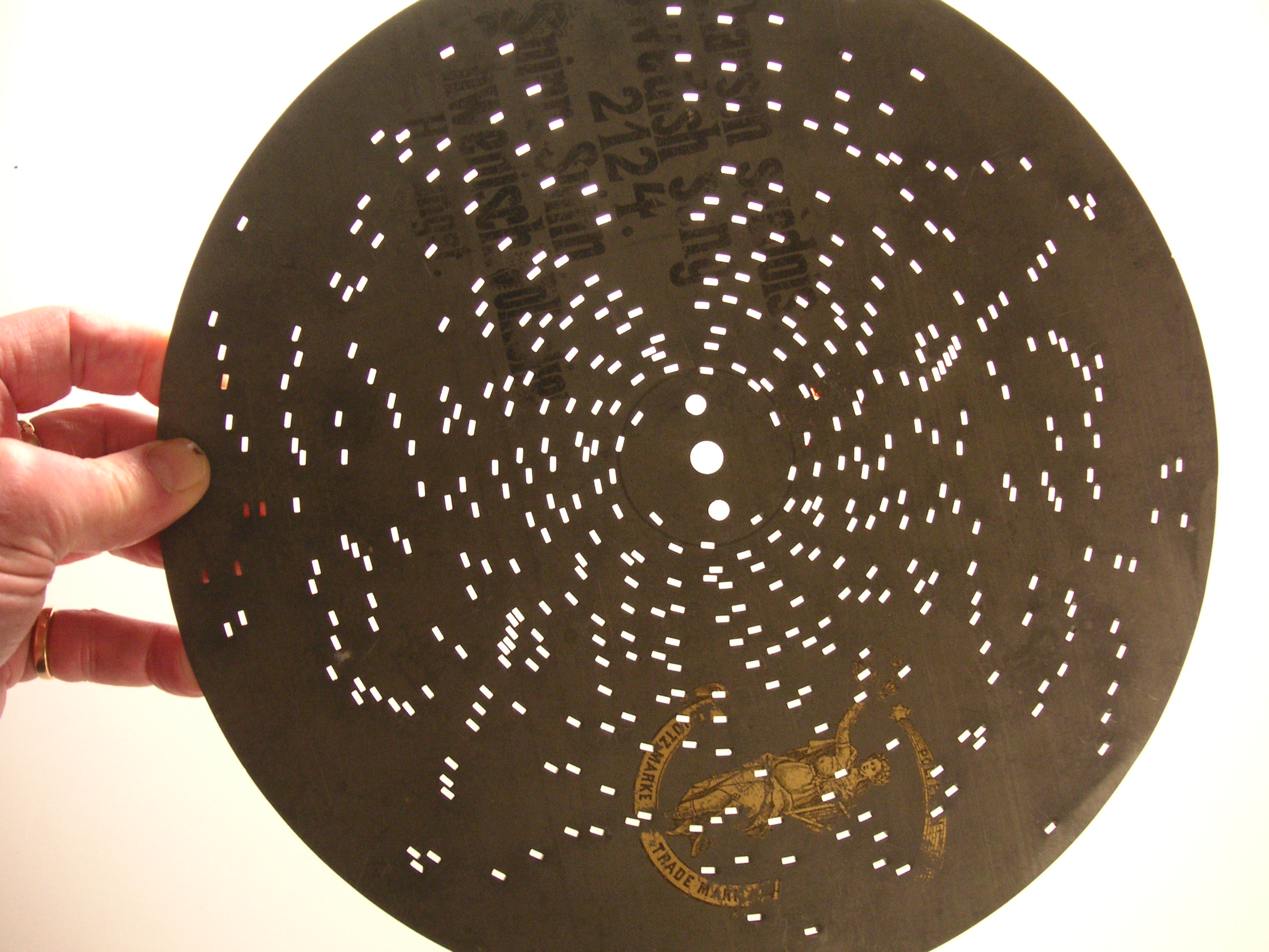 Polyphon, Lochplatte